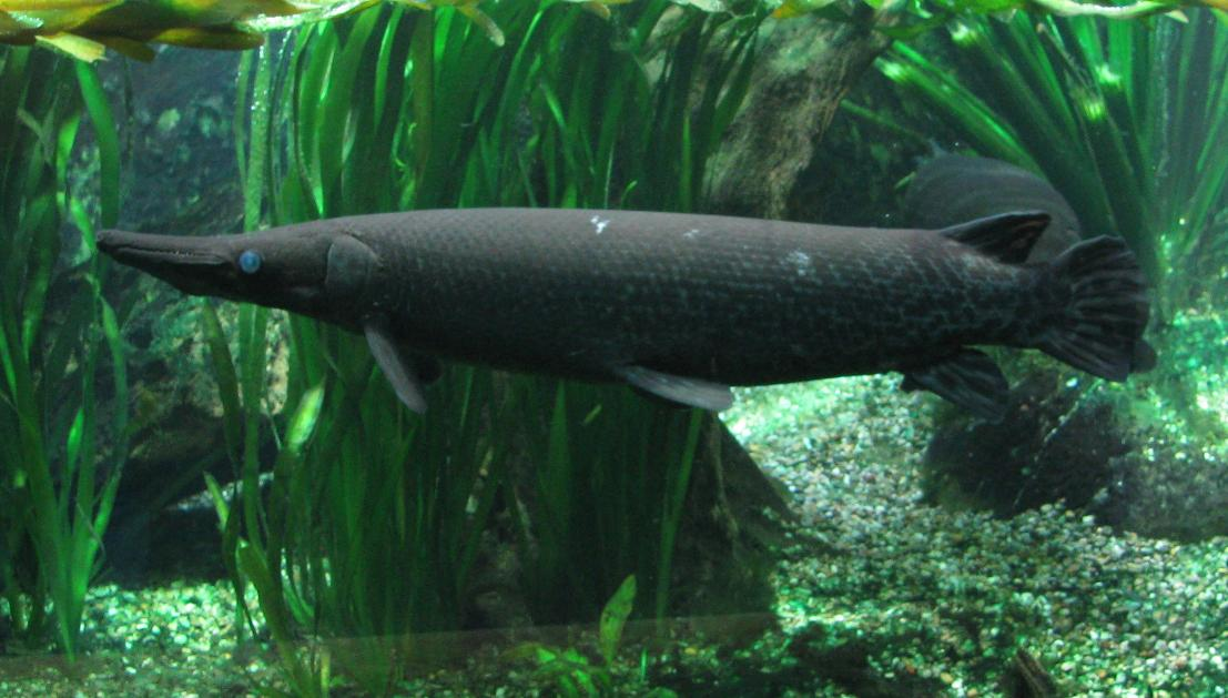 Atractosteus spatula